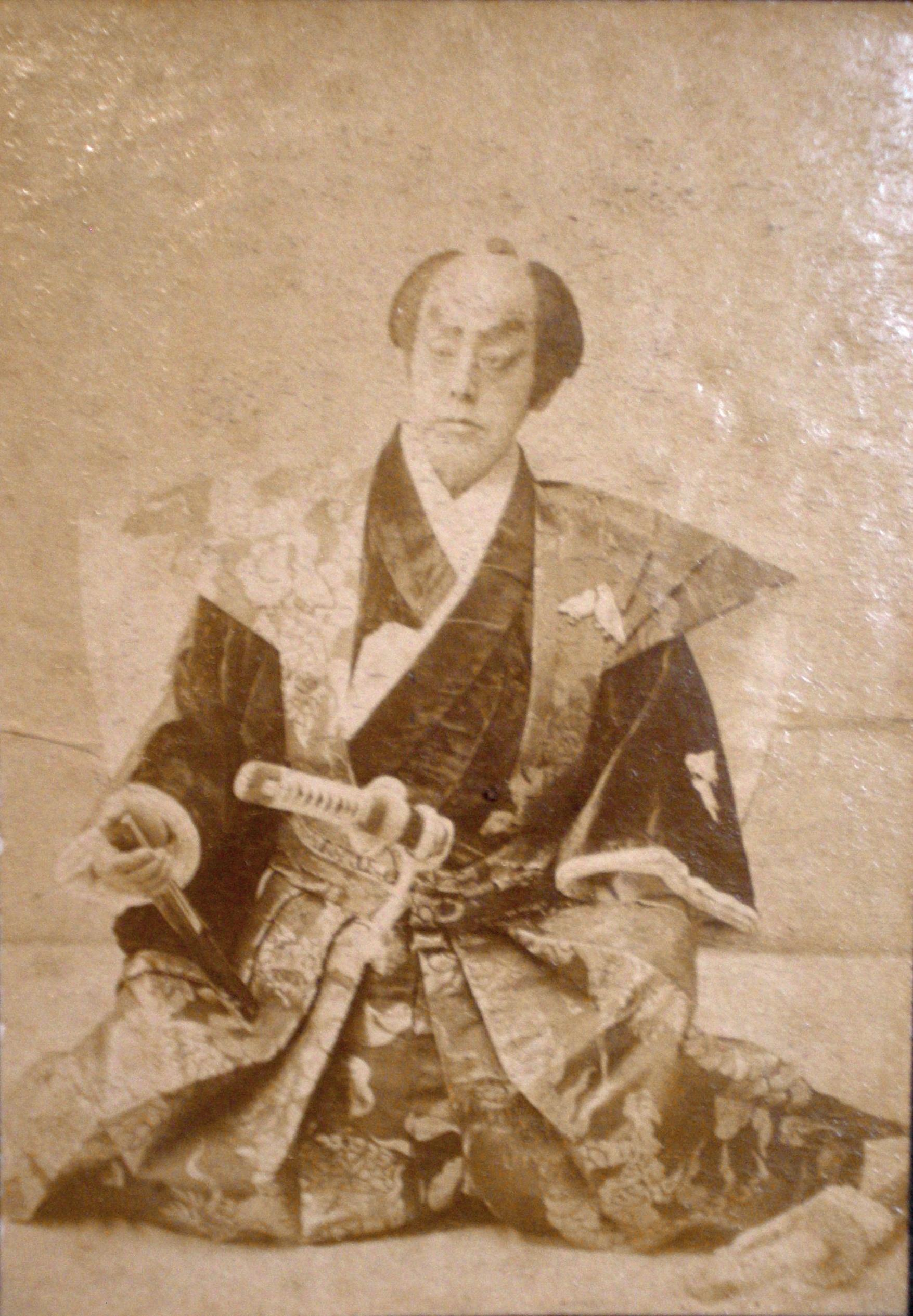 Shikan Nakamura IV,the age of 67,Kabuki Actor "Narikoma-ya" - trimming version